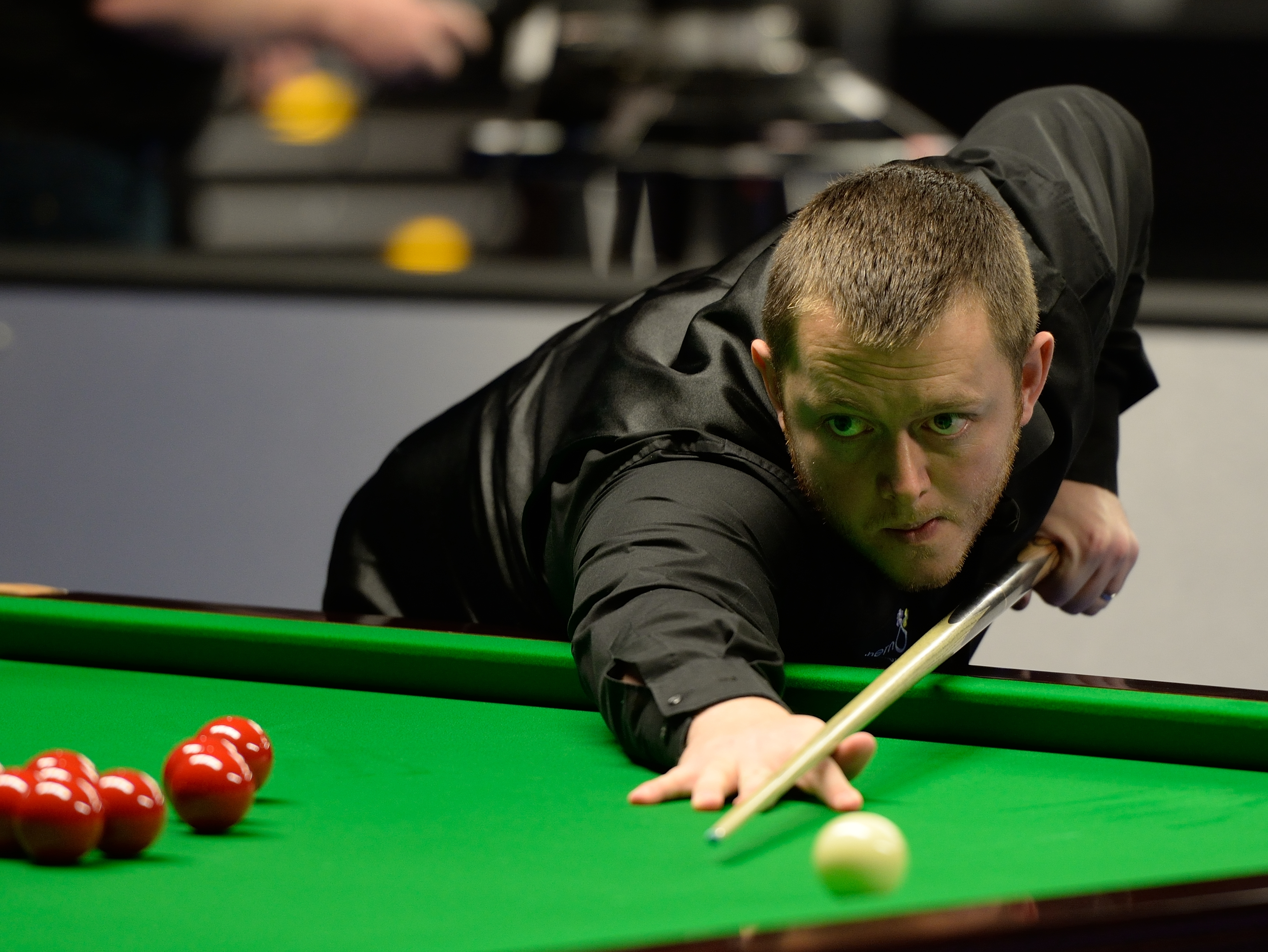 Picture taken in Berlin during the Snooker German Masters in 2015. Mark Allen.